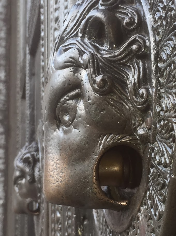 The lions on the Aachener cathedral main portal seen from the west with 'the thumb' only in the right lion.